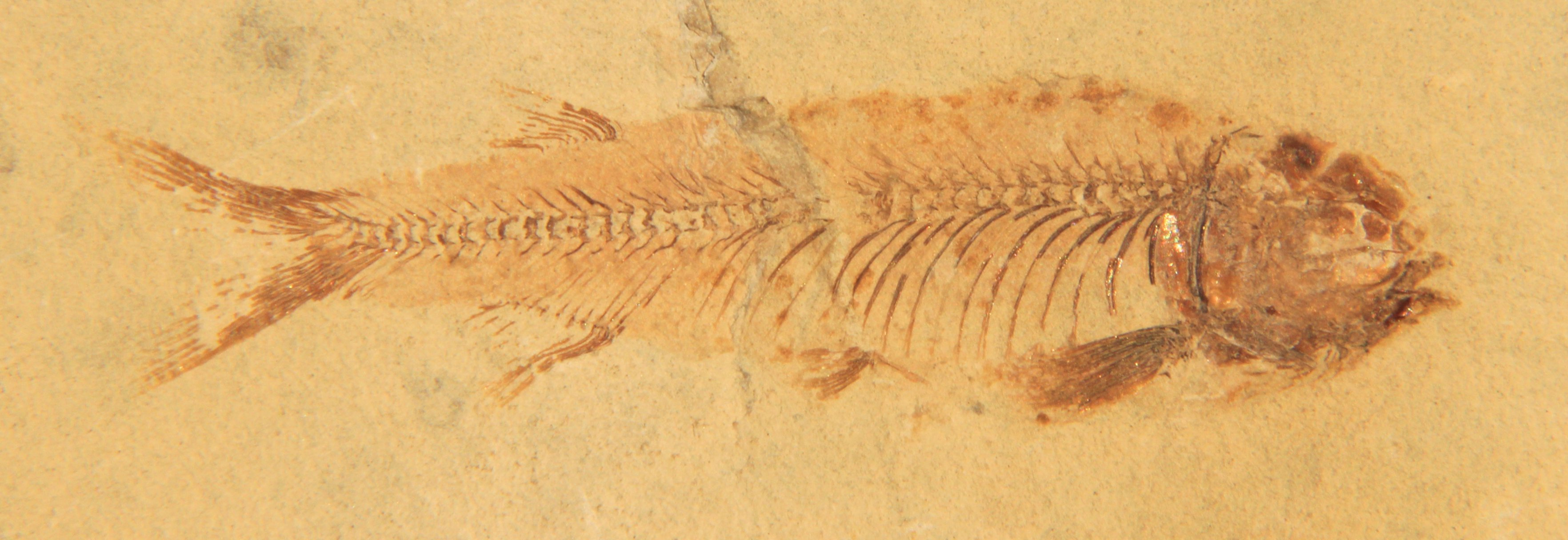 Extinct ray-finned fish Lycoptera muroi, Class Actinopterygii, Superorder Osteoglossomorpha, Family Lycopteridae, 53mm along the axis, collected near Jehol, Liaoning, China, from the Lower Cretaceous